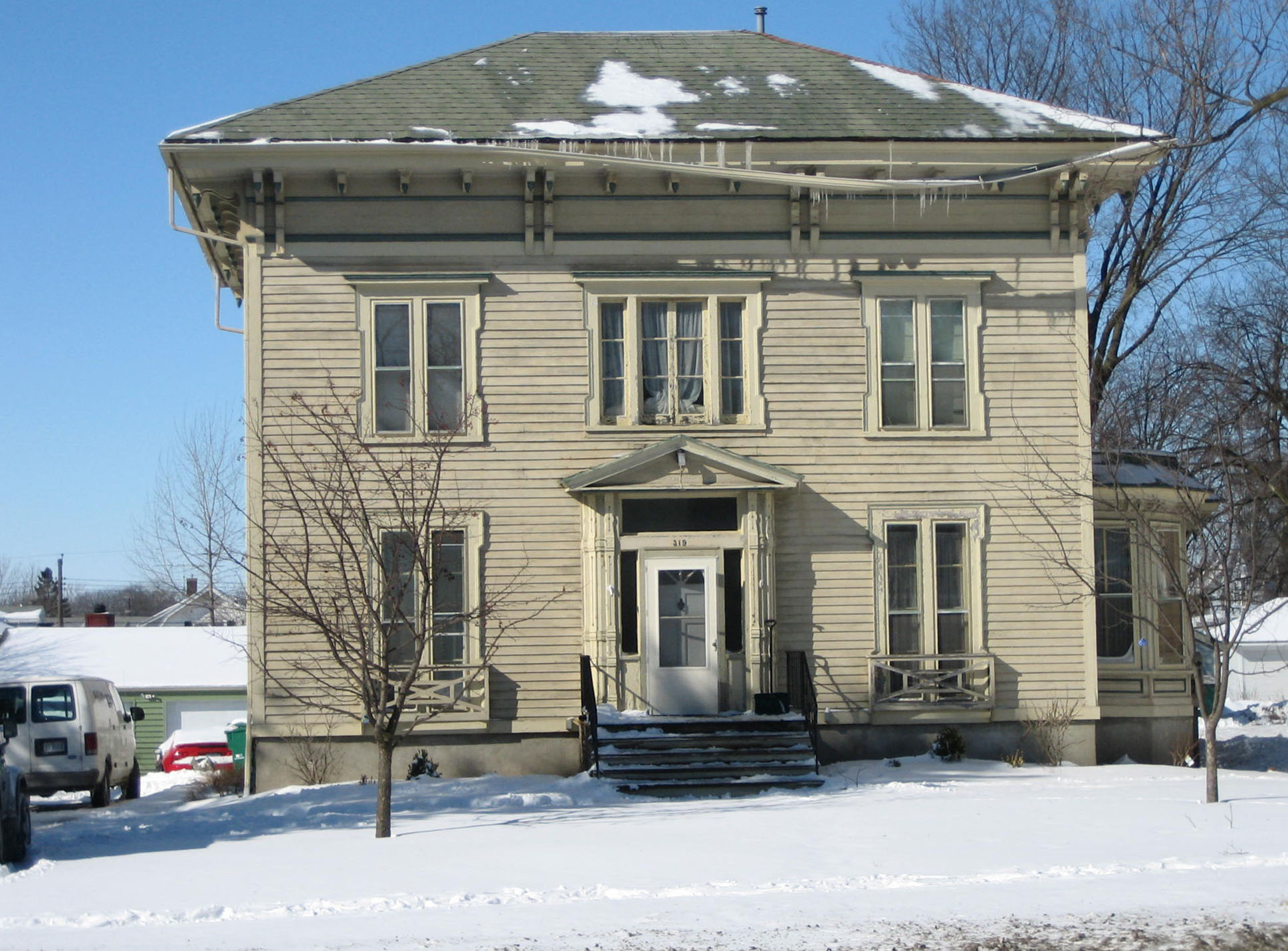 319 Somonauk St., Dr. Orlando M. Bryan House, Sycamore, Illinois. Sycamore Historic District, National Register of Historic Places.